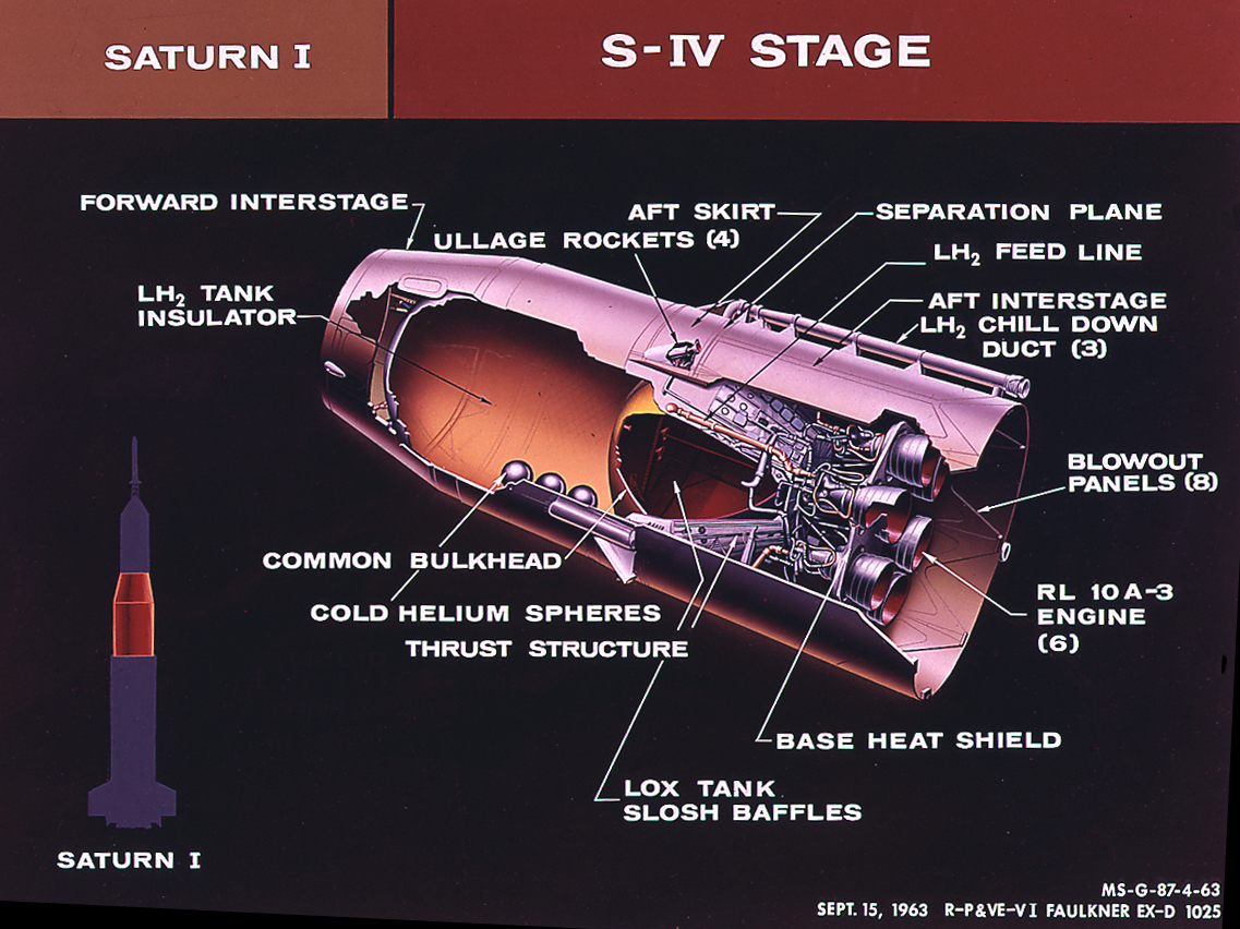 This cutaway of the Saturn I S-IV stage (second stage) illustrates the booster's components. Powered by six RL-10 engines, the S-IV stage was capable of producing 90,000 pounds of thrust. Development of the Saturn S-IV stage by the Marshall Space Flight Center (MSFC) contributed many technological breakthroughs vital to the success of the Apollo lunar program, including the use of liquid hydrogen as a propellant.